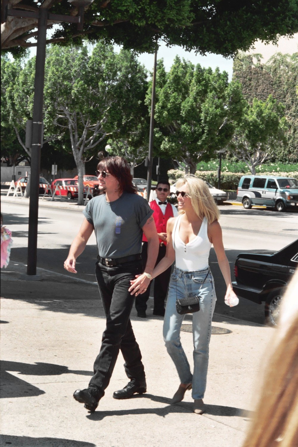 1994 Emmy Awards NOTE: Permission granted to copy, publish, broadcast or post any of my photos, but please credit "photo by Alan Light" if you can. Thanks. Scanned from the original 35MM film negative.